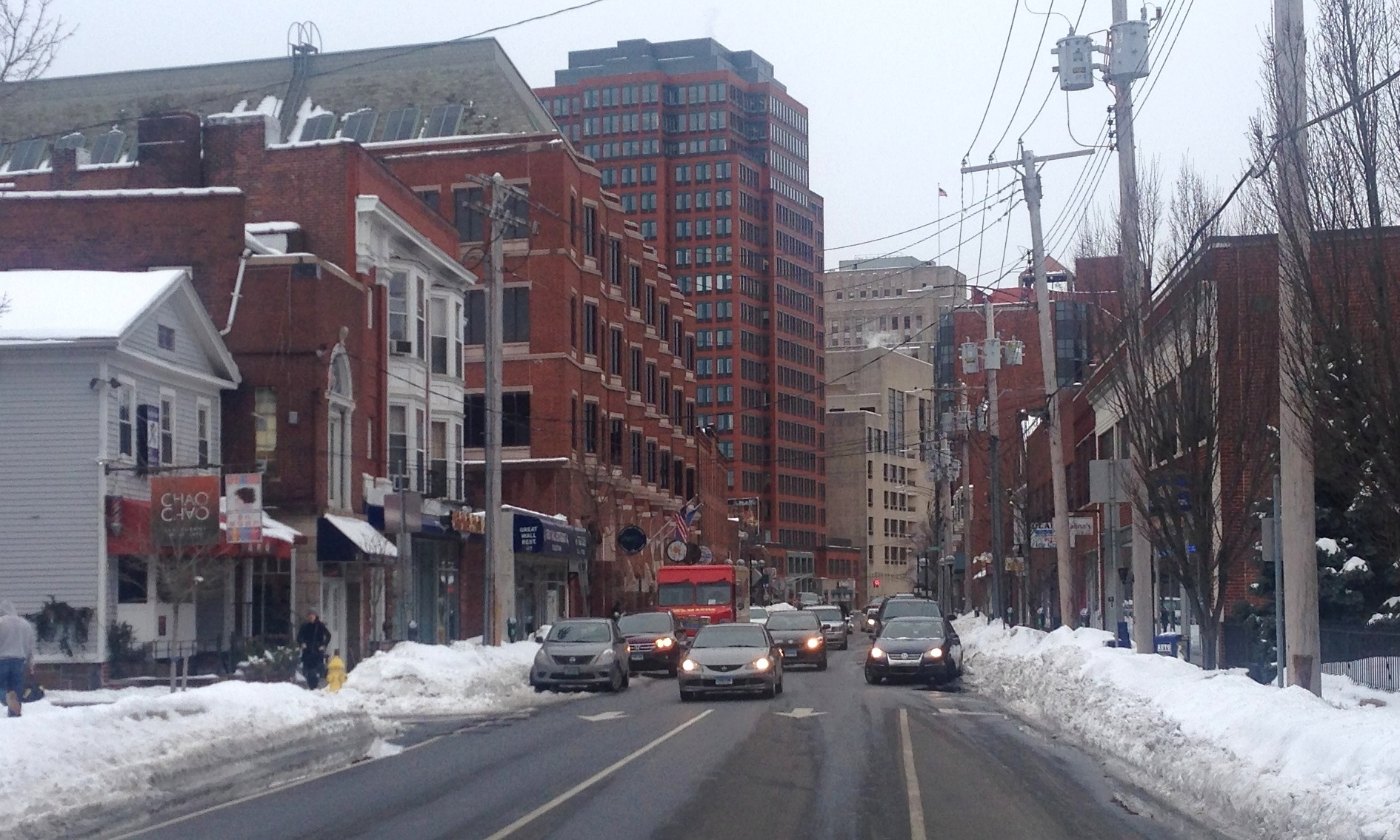 Southward view of Whitney Avenue from Trumbull St in New Haven